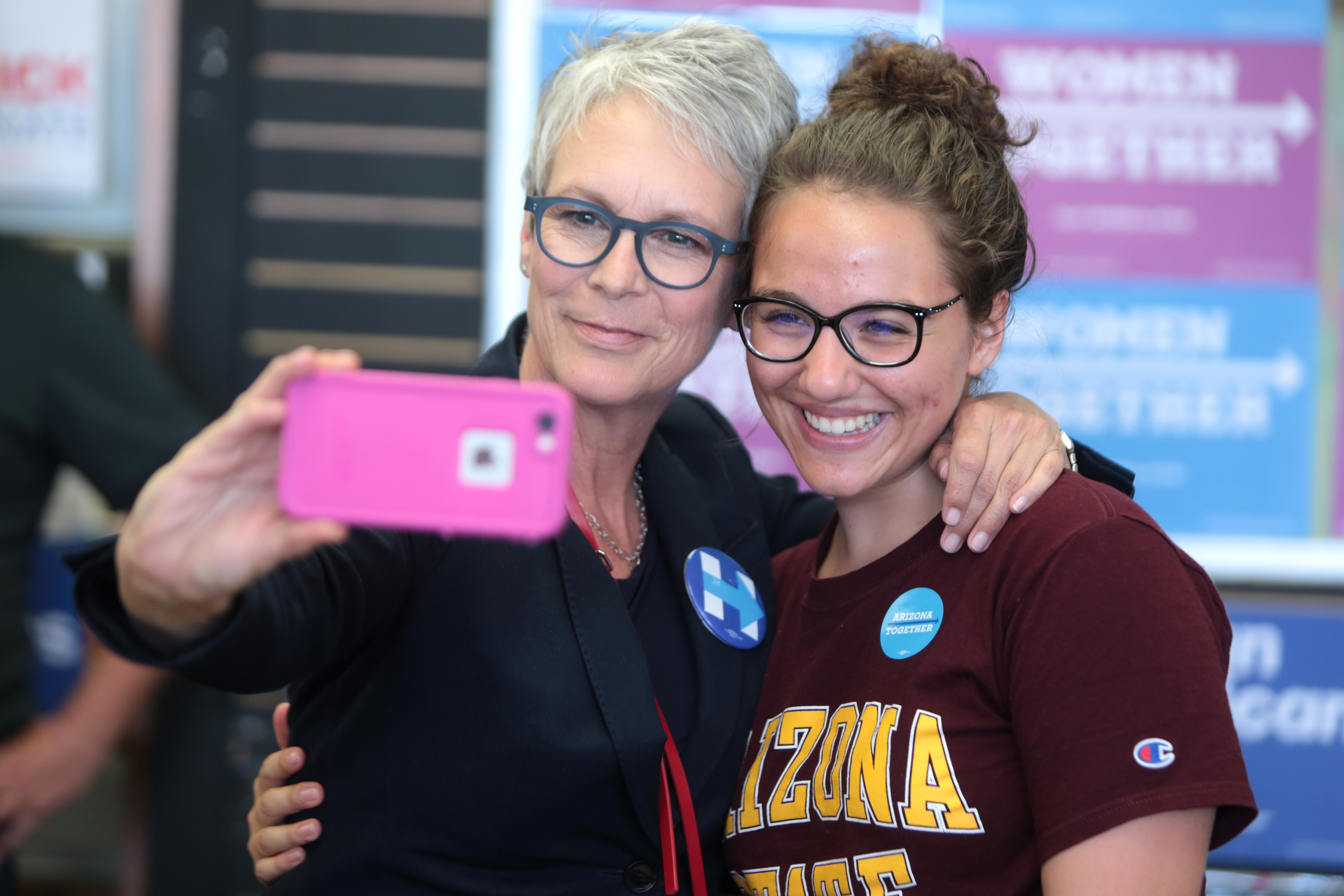 Jamie Lee Curtis speaking at an event for Hillary Clinton supporters in Tempe, Arizona.